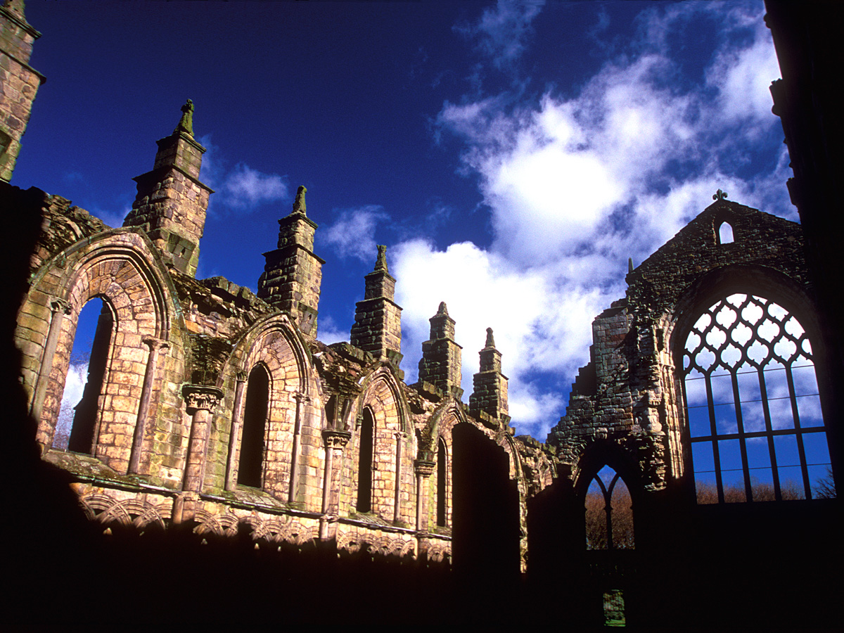 Holyrood Abbey, Edinburgh, ScotlandHolyrood Abbey